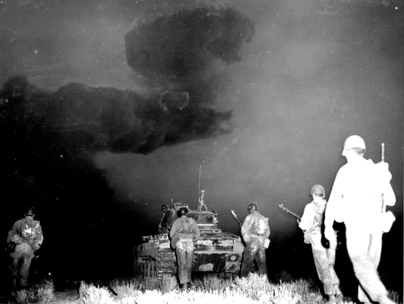 Exercise Desert Rock IV - Nevada Proving Grounds - June 1, 1952. Sixth Army troops from Camp Desert Rock attack towards an atomic blast during a maneuver held by the Army at the AEC's Nevada Proving Grounds in conjunction with the Atomic Energy Commission's Tumbler-Snapper George nuclear test. The troops in foxholes 7,000 yards from the blast, charged forward in battle formation as soon as the shock wave swept over their position -- about 20 seconds and advanced several thousand yards towards ground zero before being halted by radiological safety rules